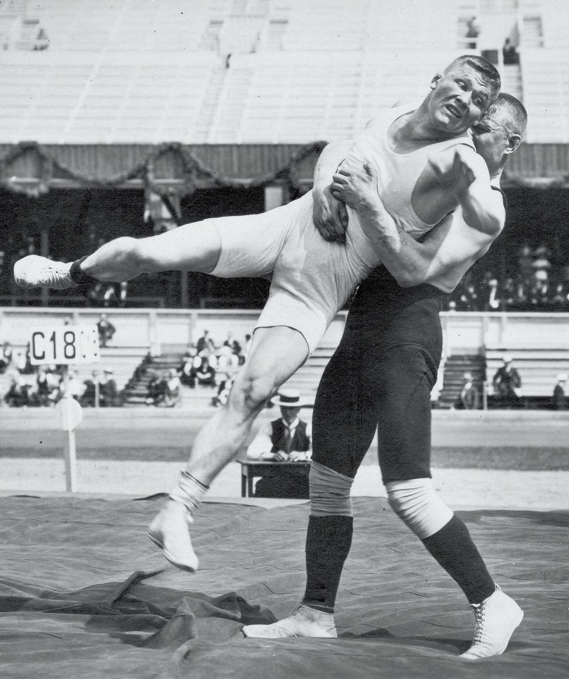 Martin KLEIN of Russia (right) v. Alfred ASIKAINEN of Finland in a Greco-Roman wrestling match